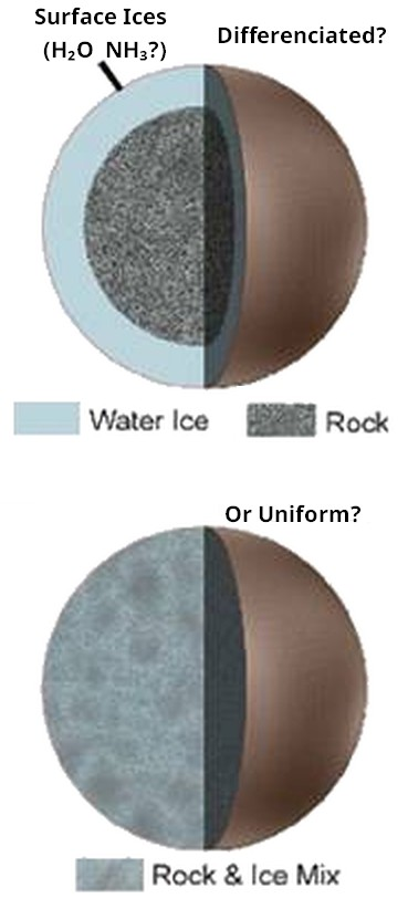 Graphical representation of two theories of the internal structure of Charon, Plutos moon